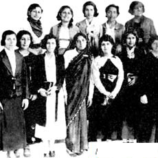 First Iranian women who attended university (According to Bamdad, Bardrolmolouk): including Mehrangiz Manouchehrian (senator), Shams-ol-Molouk Mosahab (senator), Bardrolmolouk Bamdad